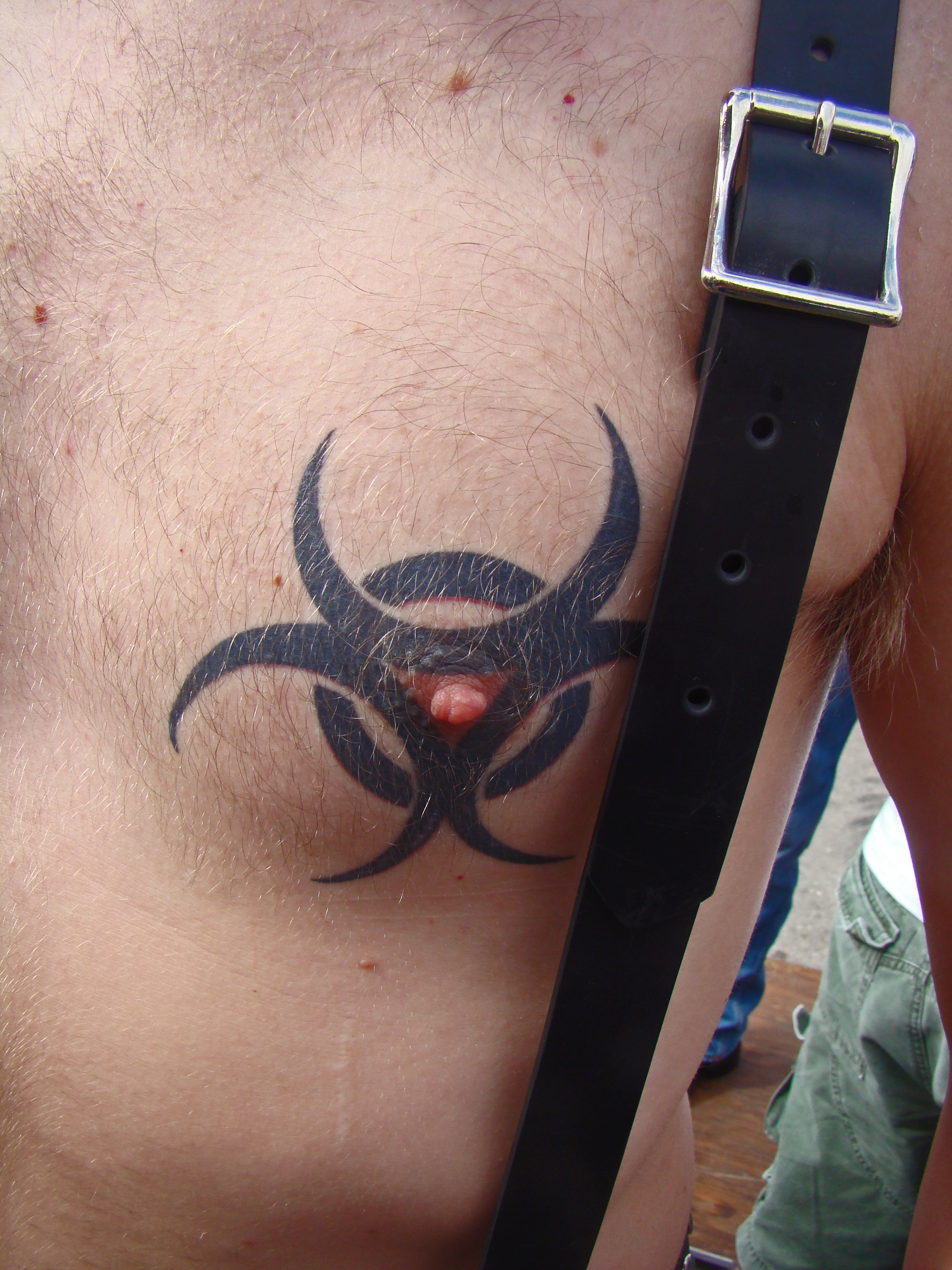 Biohazard nipple tattoo. he said it didn't hurt. yikes. Folsom Street East 2009 be sure to check out my pictures from last year's folsom street east